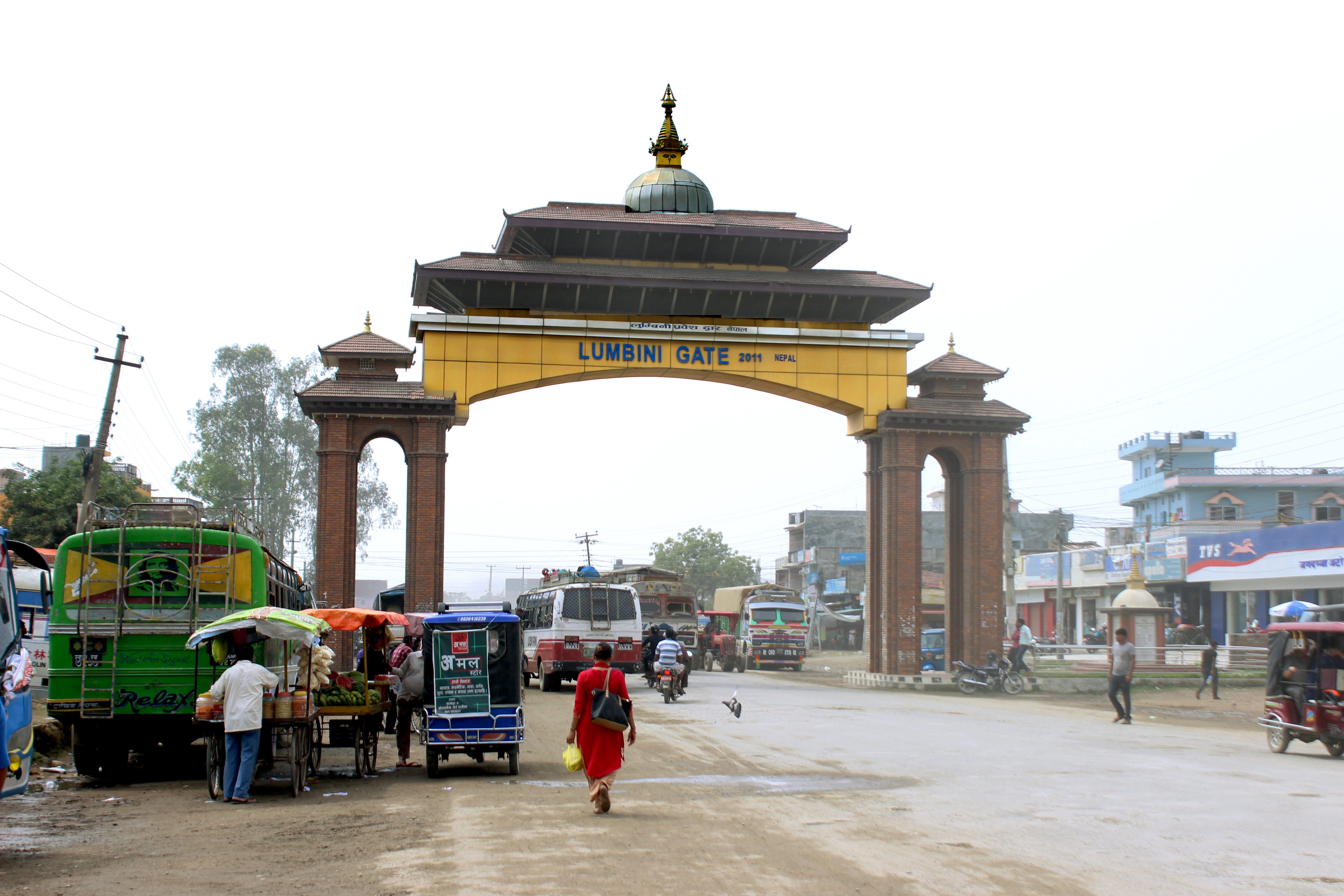 "Gateway of Lumbini." at Siddarthanagar